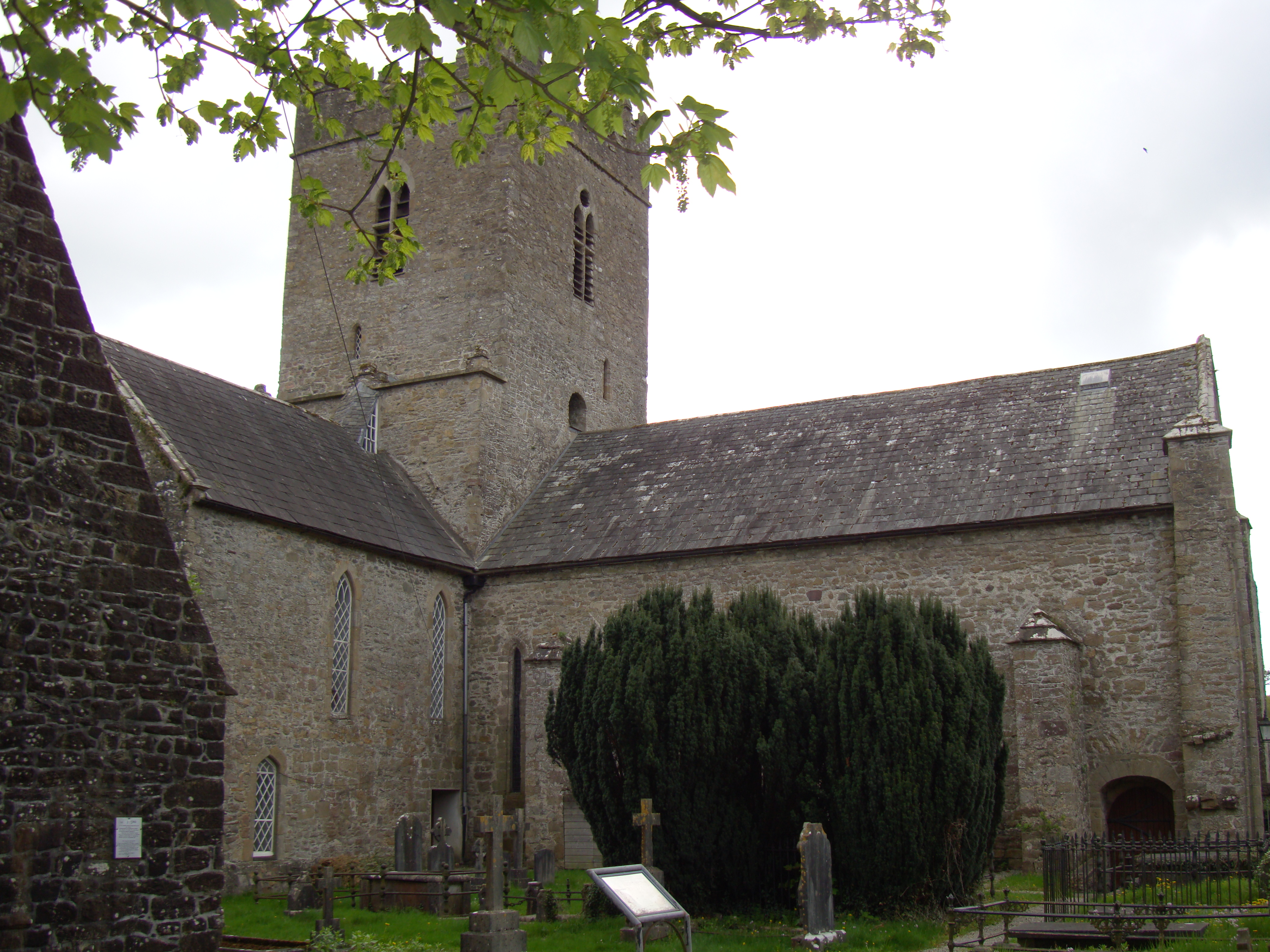 Photograph of Killaloe Cathedral, Co. Clare, Ireland